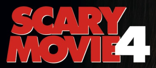 Official logo of "Scary Movie 4".